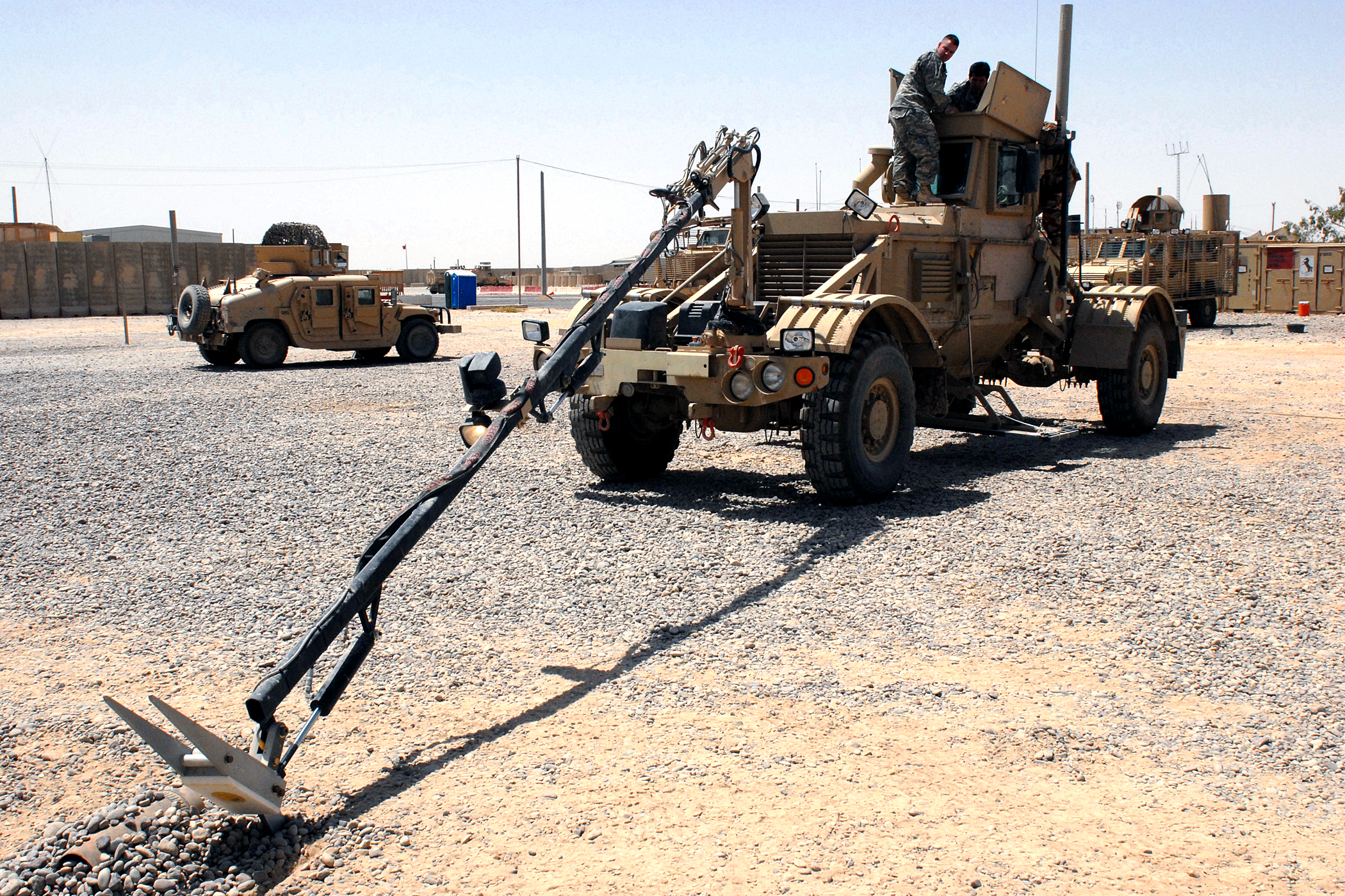 U.S. Army Spc. Jon Staib, trains several Iraqi army soldiers how to operate a husky vehicle to get closer to a mock improvised explosive device without setting it off in a training exercise at Contingency Operating Base Speicher, Tikrit, Iraq, June 26, 2008. U.S. Army photo by Spc. Opal Vaughn